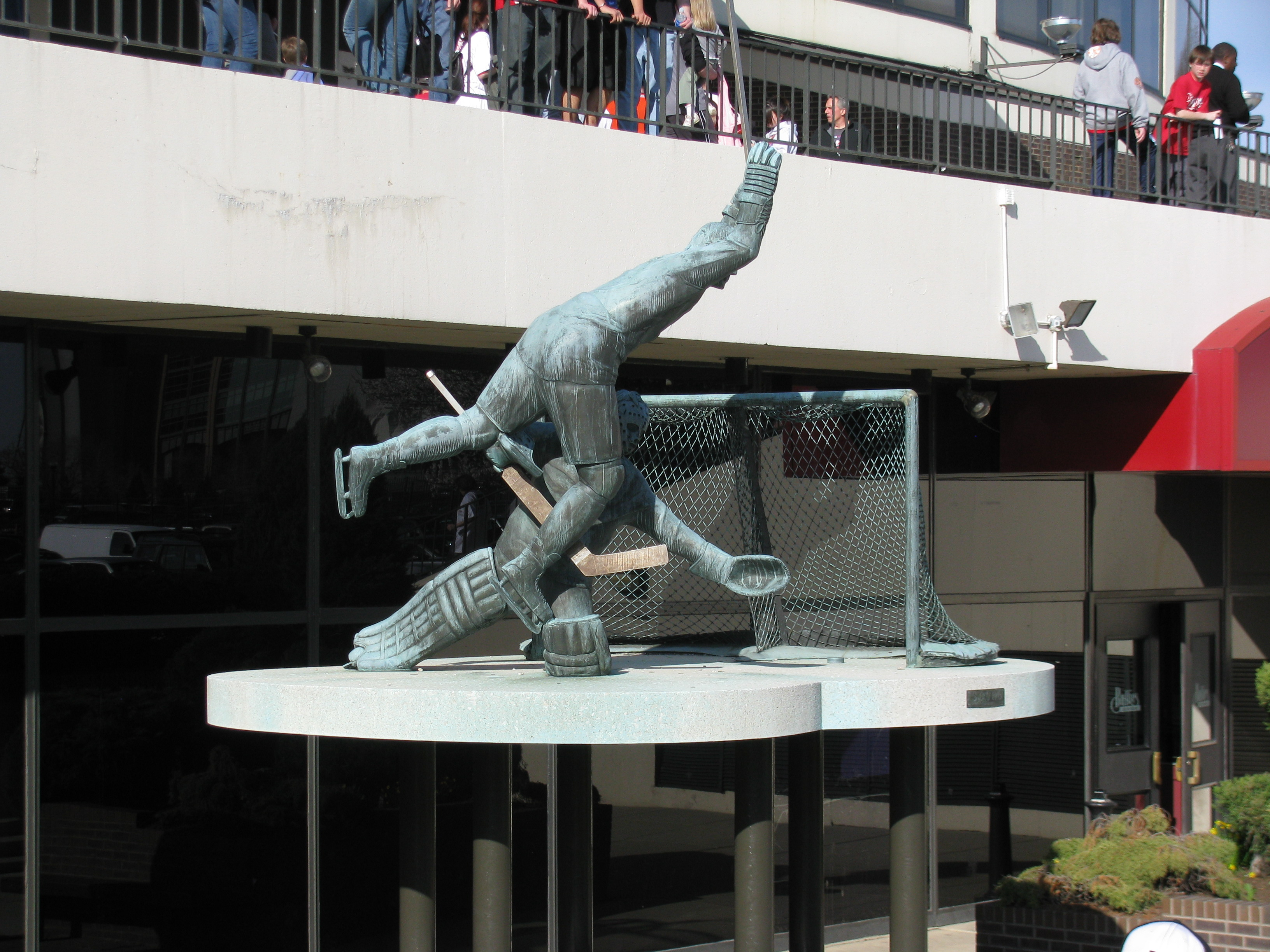 Statue titled "Score" depicting Gary Dornhoefer's overtime goal during the 1973 Stanley Cup playoffs